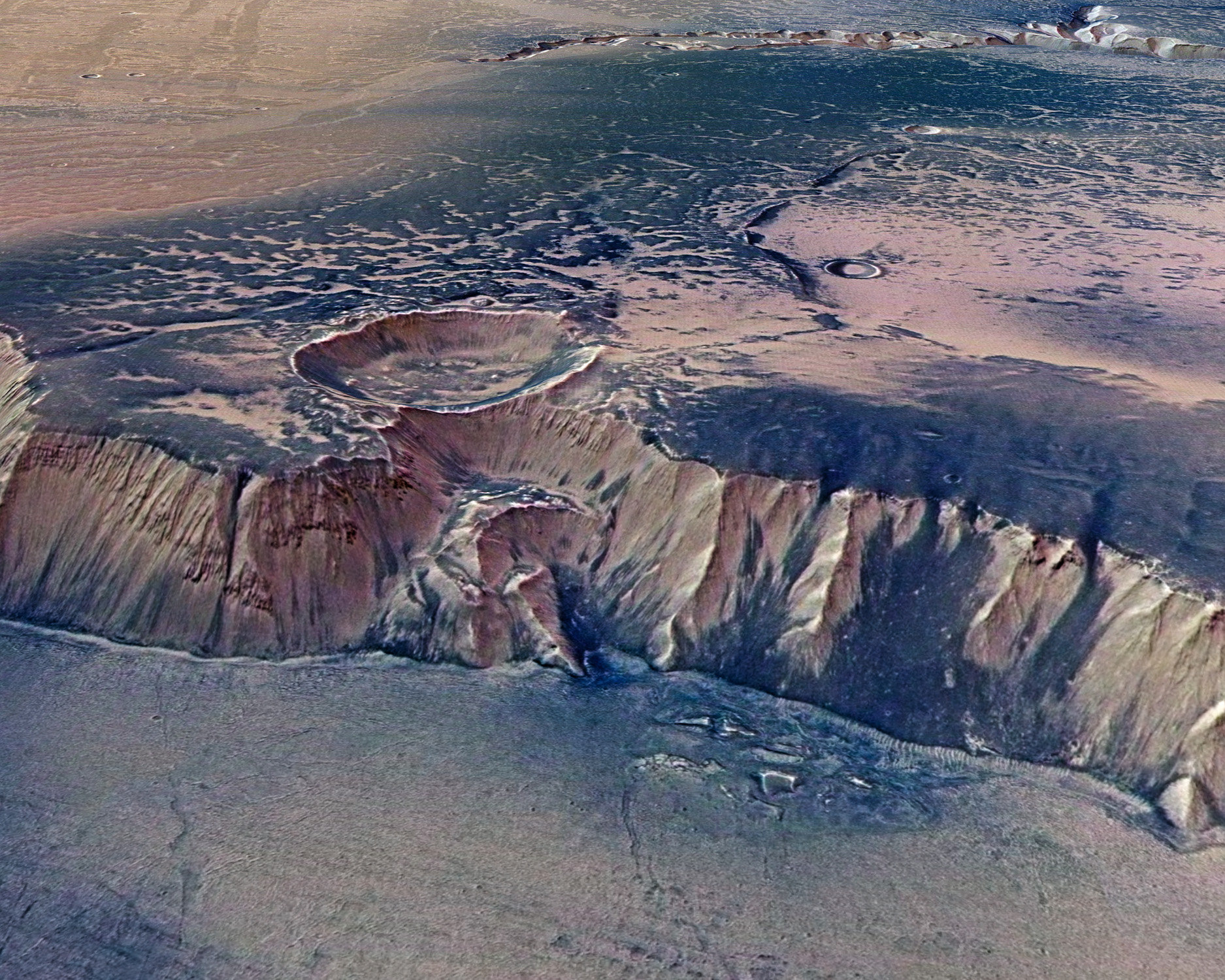 A computer-generated perspective view of southern Echus Chasma on Mars based on data from Mars Express.